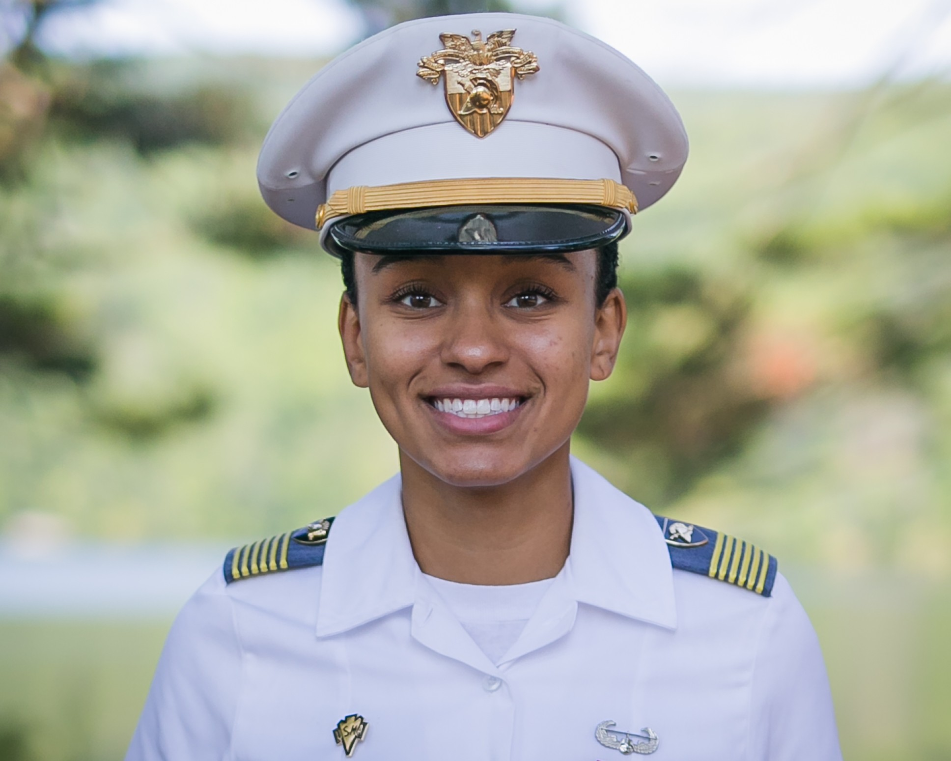 WEST POINT, N.Y. -- Cadet Simone Askew of Fairfax, Virginia, has been selected First Captain of the U.S. Military Academy's Corps of Cadets for the 2017-2018 academic year, achieving the highest position in the cadet chain of command. She will assume her duties on Aug. 14.